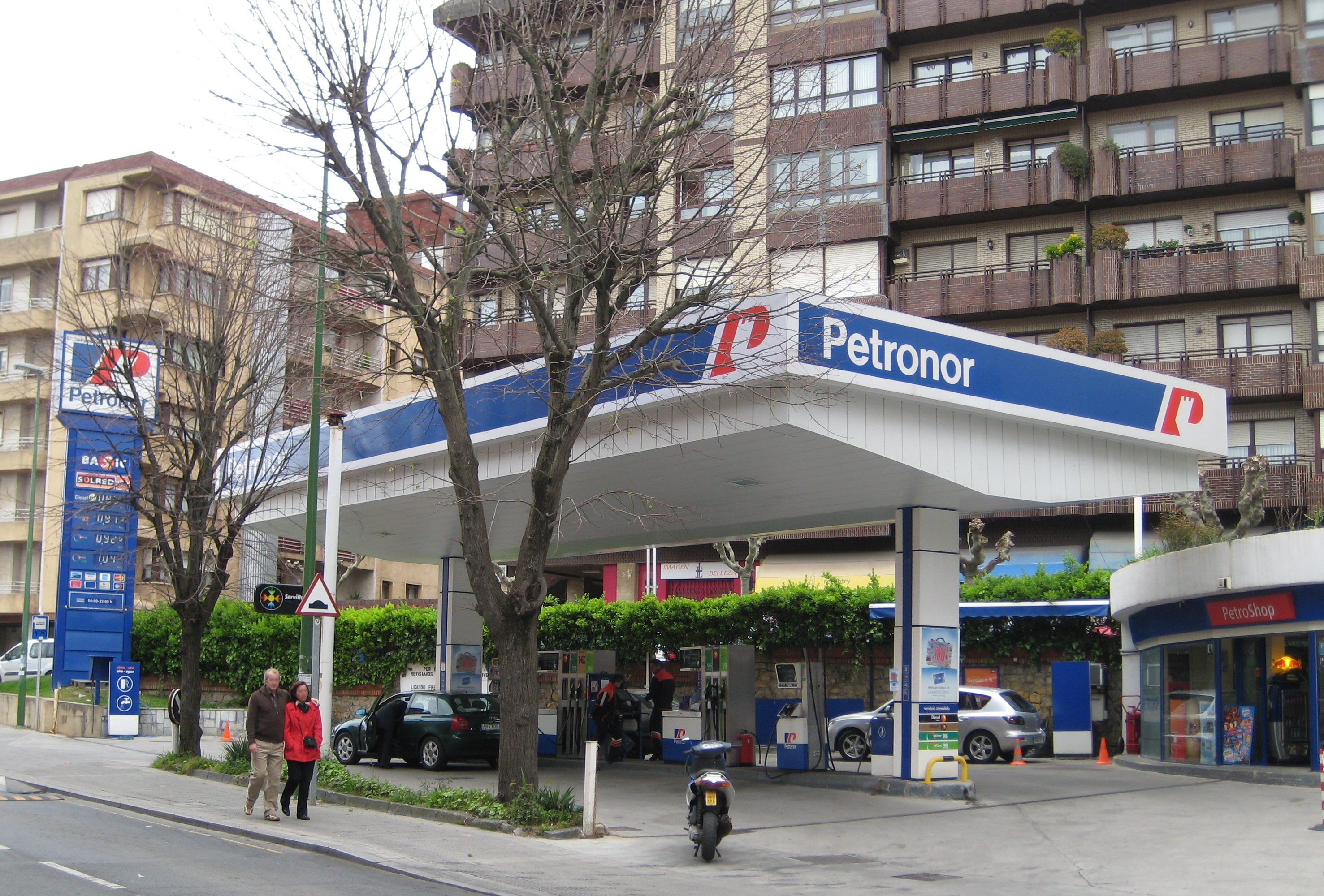 Petronor gas station in Algorta, Getxo, Biscay.